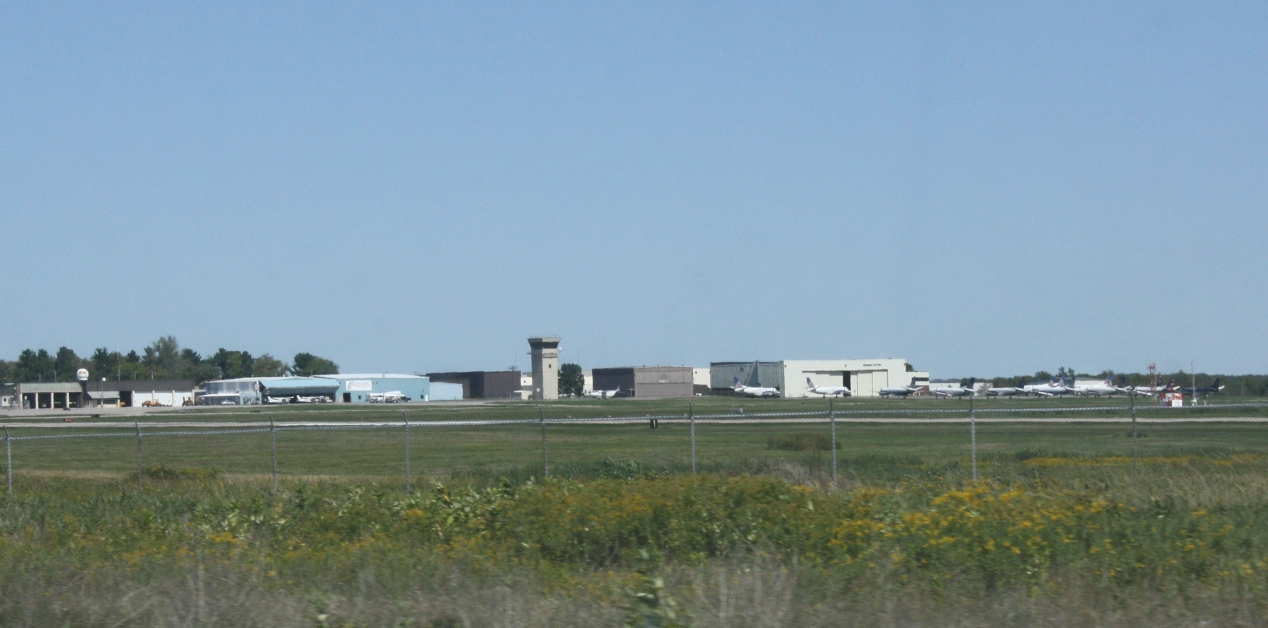 Panoramic view of the Central Wisconsin Airport from Interstate 39.